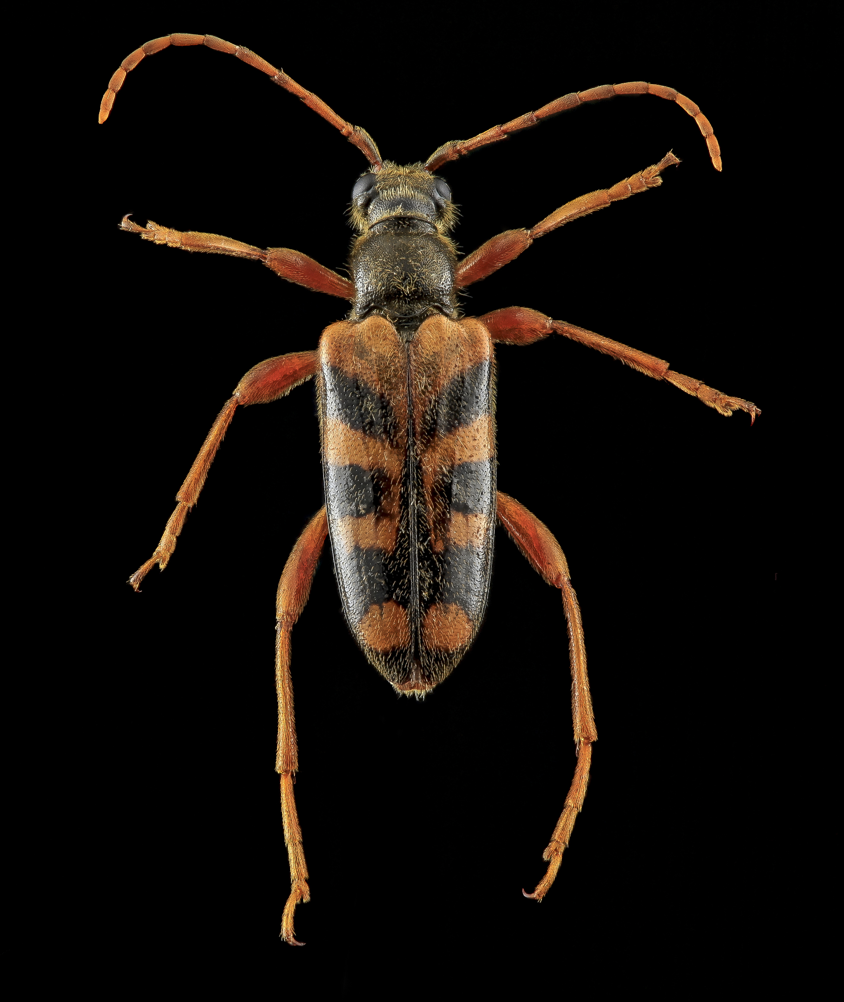 Xestoleptura crassicornis (LeConte, 1873) det. F. Vitali from Laurel Maryland collected in June by Francisco Posada